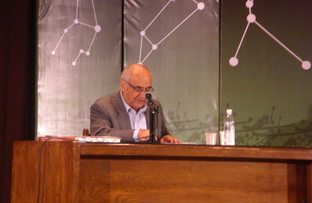 Master Ahmad Dalaki, the father of amateur astronomy in IRAN in a conference in Mashhad